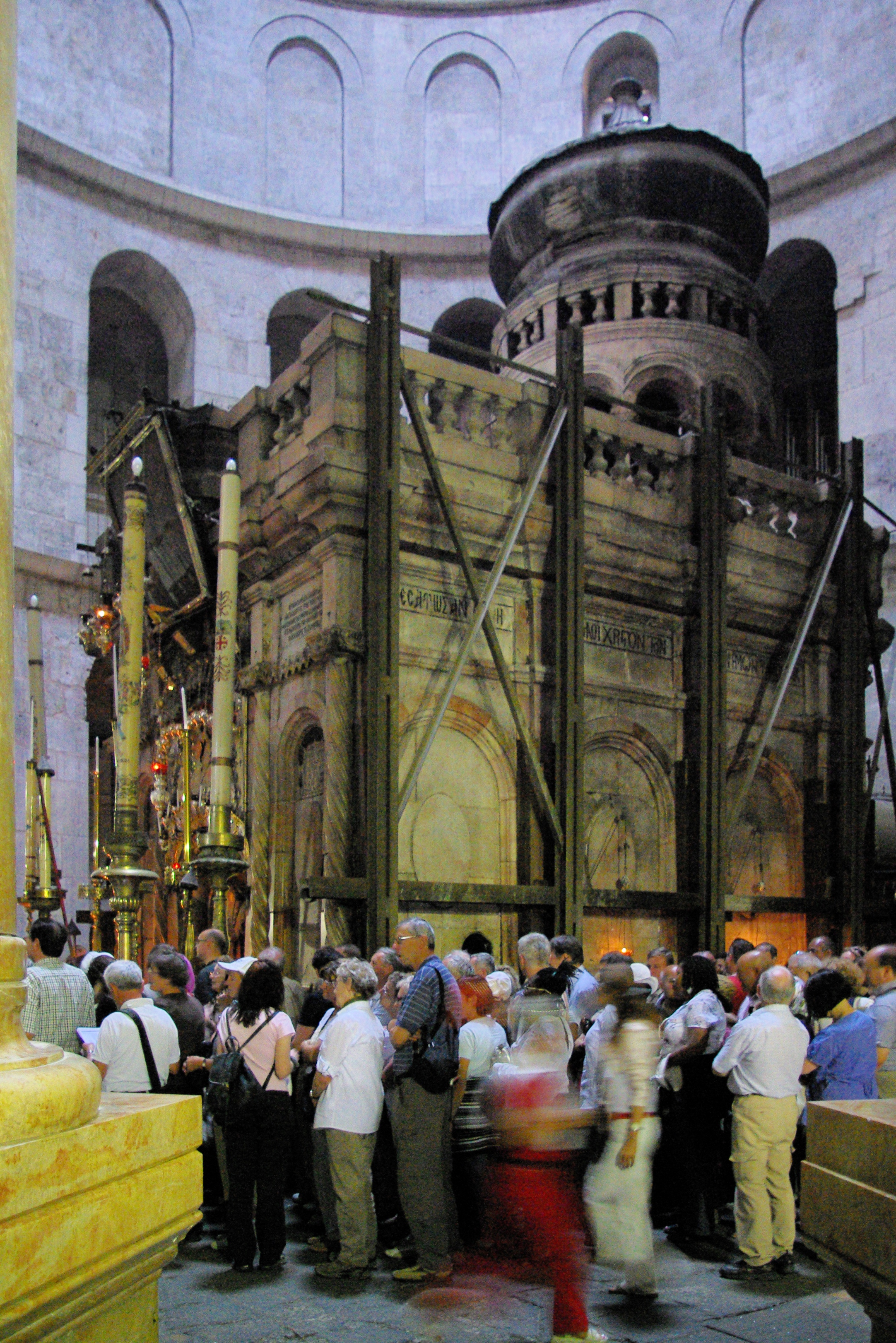 Jerusalem, Aedicula of the Holy Sepulchre